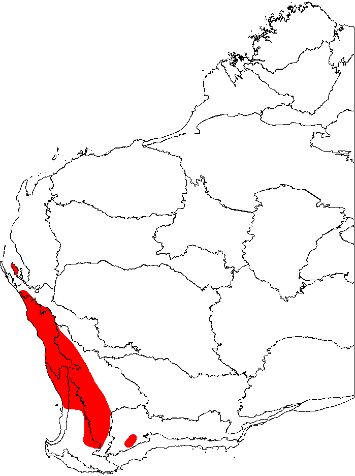 A map of Western Australia, showing the distribution of Banksia prionotes (Acorn Banksia) superimposed on a background of the IBRA 6.1 biogeographic regions.